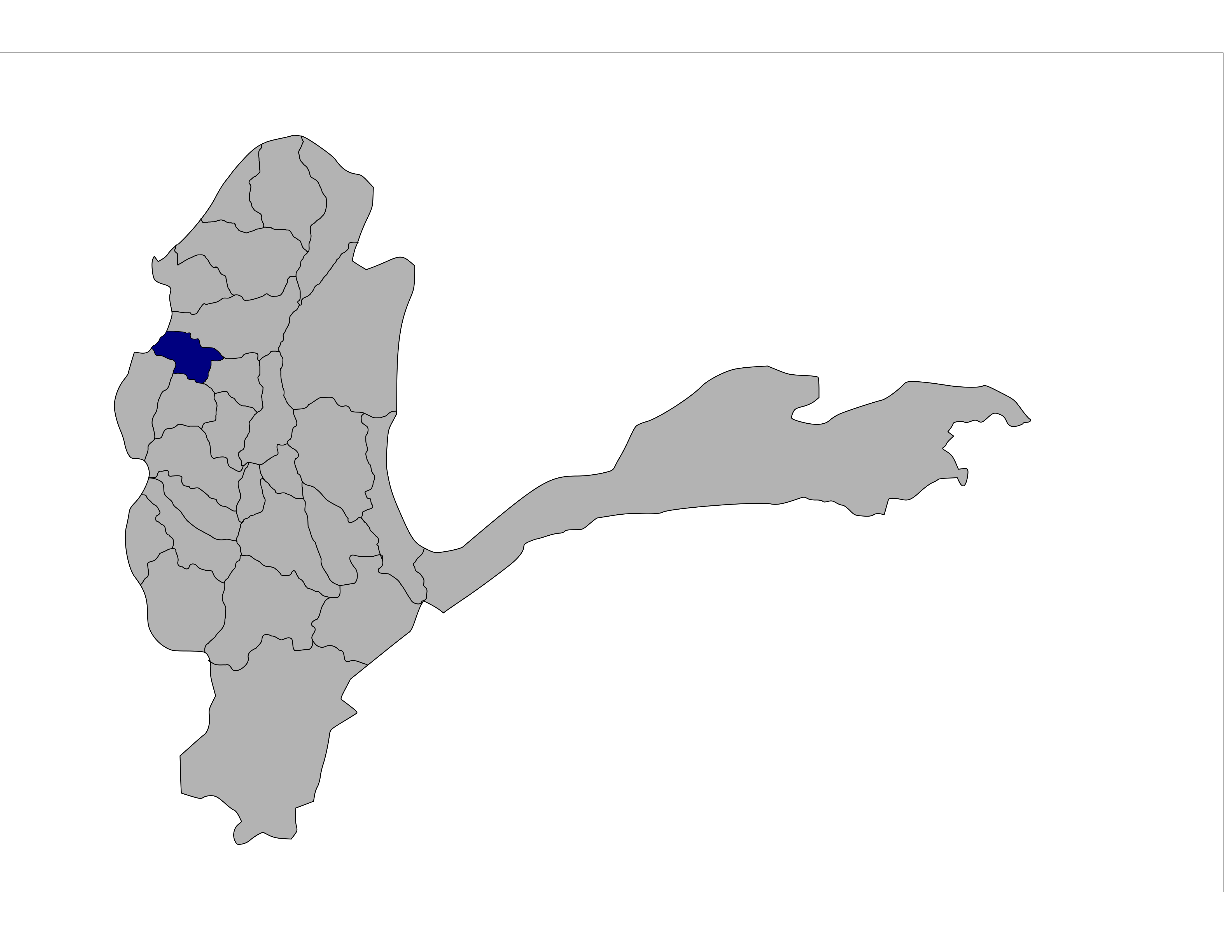 Shows the boundaries of Yawan District, Badakhshan Province, Afghanistan.